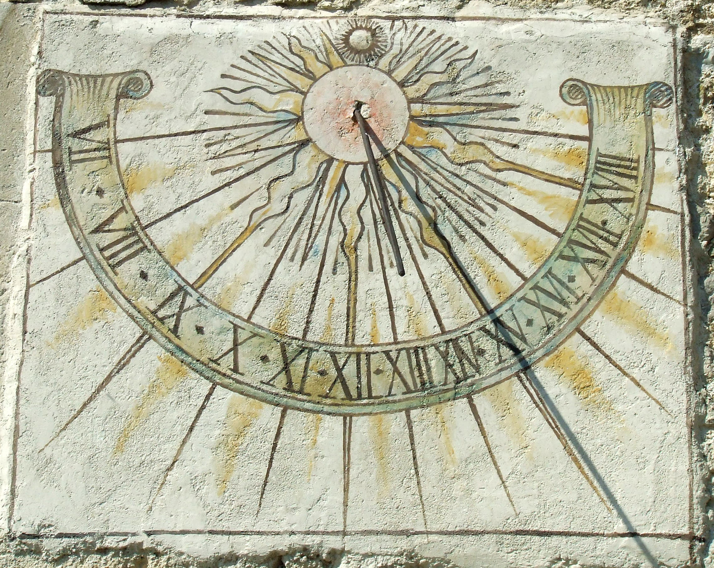 Sundial on the Church of Saint Rupert in the village Šentrupert, Slovenia.